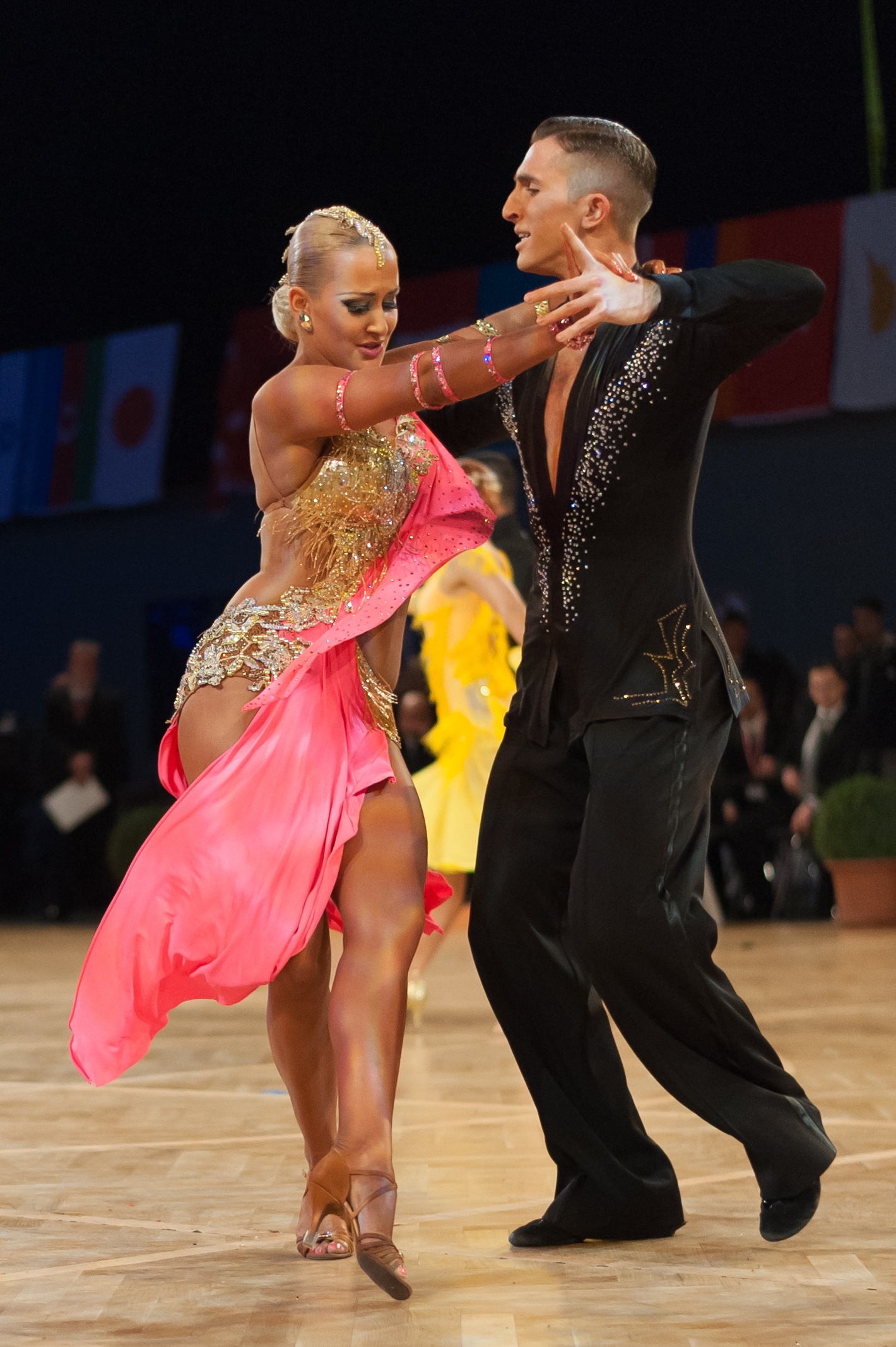 2015 WDSF World DanceSport Championship Latin, 2015-11-21, Schwechat, Lower Austria